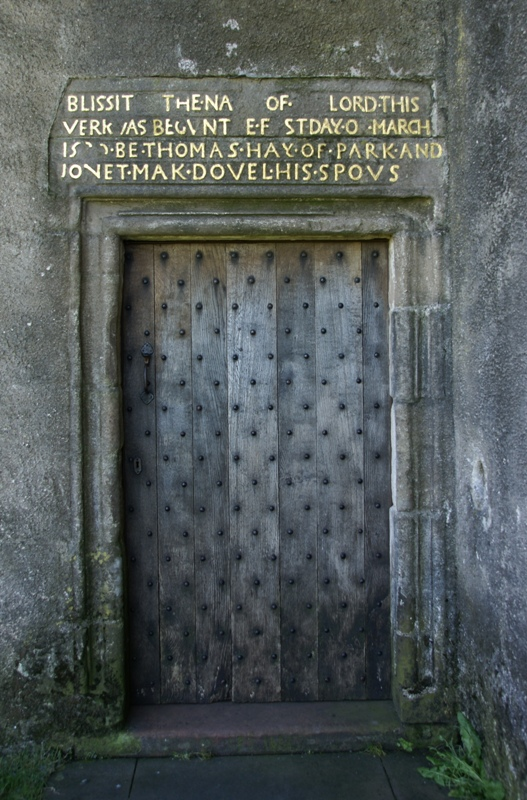 Castle of Park, near Glenluce, Dumfries and Galloway, Scotland - entrance